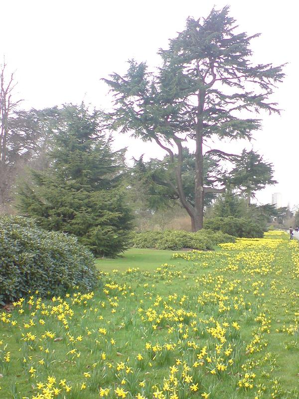 A field of Daffodils (Narcissus pseudonarcissus) in Kew Gardens, England. In the back a Deodar Cedar (Cedrus deodara).